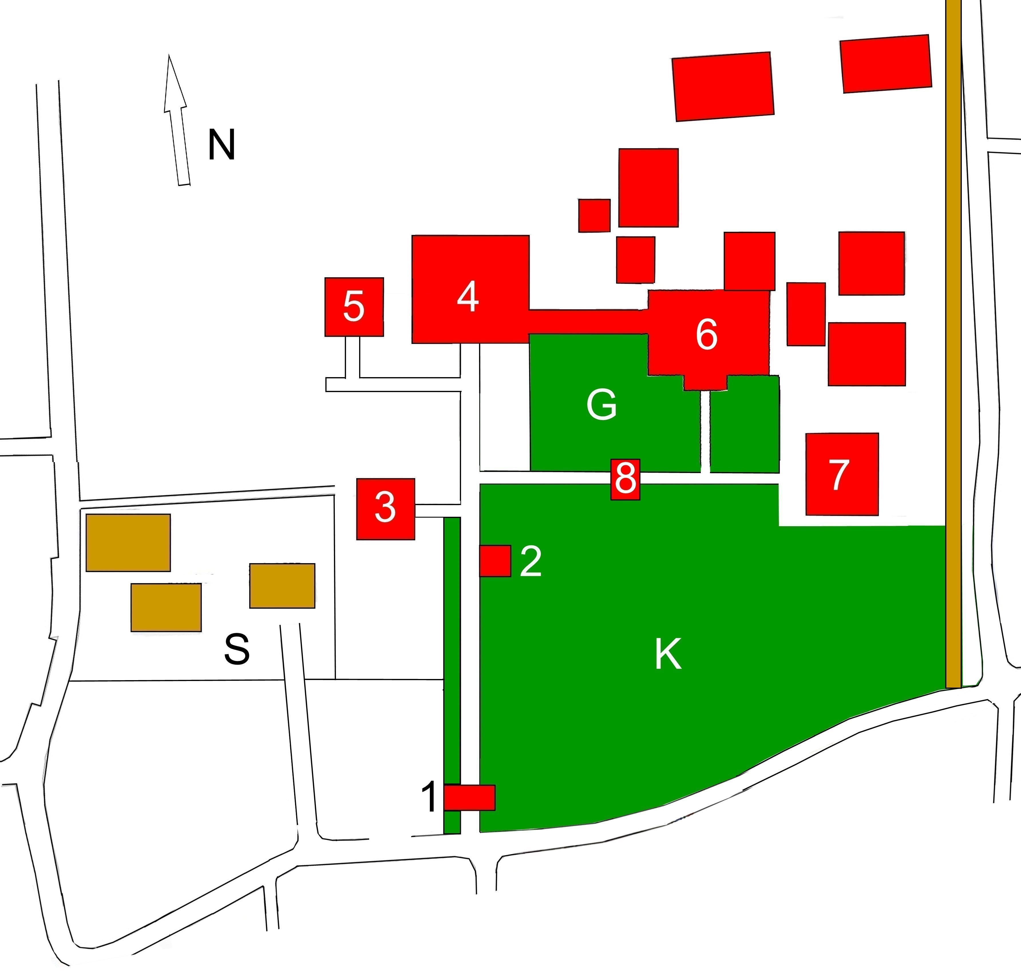 Layout of Tosa-Kokubunji temple, Prefecture Kôchi, Japan